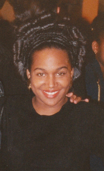 American Music Awards, January 22, 1990